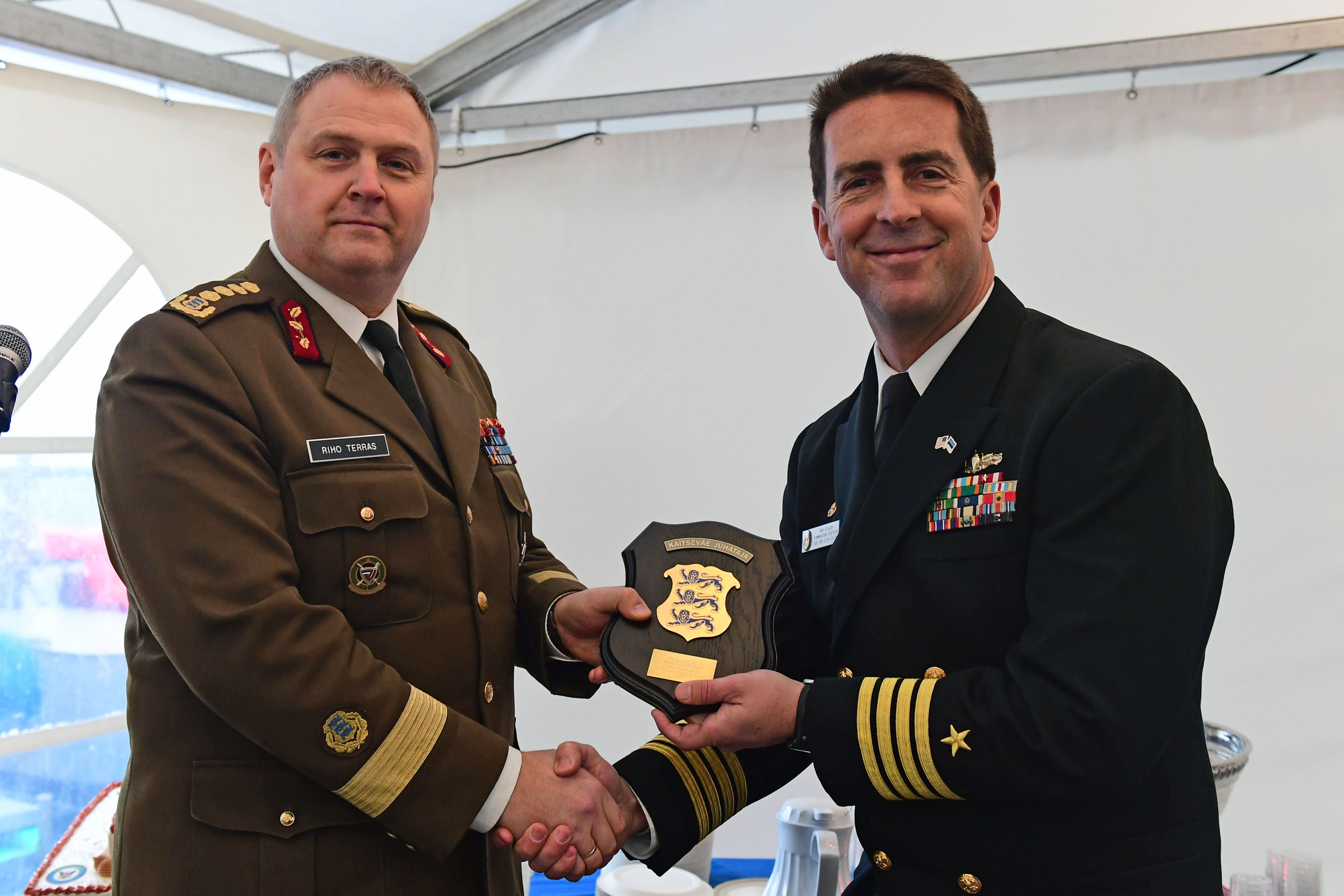 170223-N-VK873-317 TALLINN, Estonia (Feb. 23, 2017) Capt. Dan Gillen, commanding officer of the guided-missile cruiser USS Hué City (CG 66), right, exchanges a plaque with Lt. Gen. Riho Terras, commander of Estonia Defence Forces, during a reception on the flight deck aboard the ship. Hué City is in Tallinn, Estonia for a scheduled port visit to enhance U.S.-Estonia relations as the two nations work together for a stable, secure and prosperous Baltic region. (U.S. Navy photo by Mass Communication Specialist 2nd Class Kayla Cosby/Released)